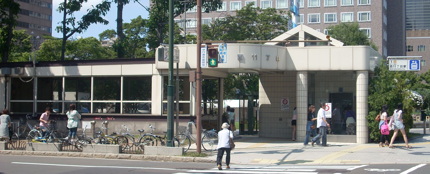 Sapporo subway Nishi juitchome station, Chuo-ku, Sapporo, Hokkaido, Japan